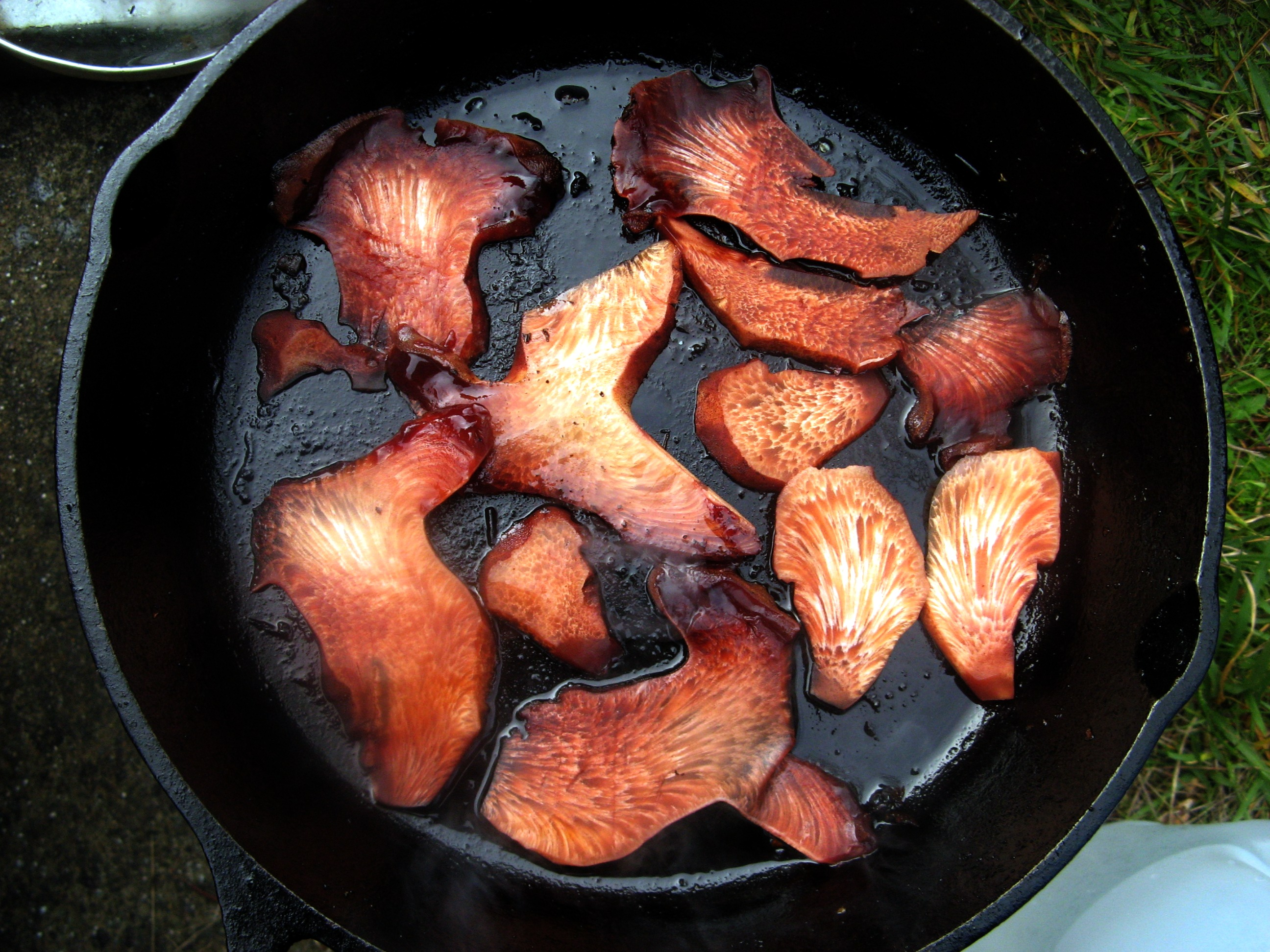 Fistulina hepatica (Schaeff.) With.